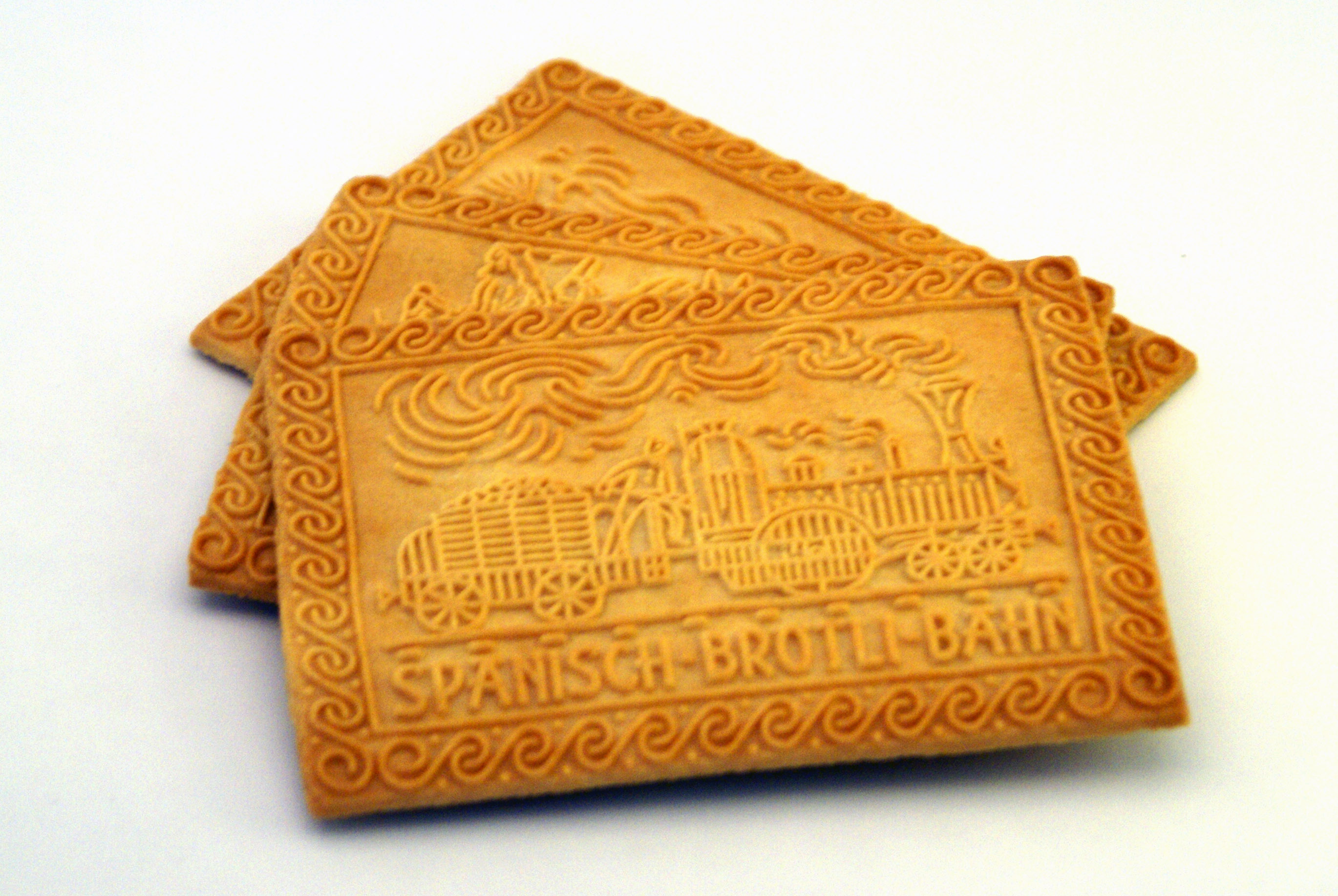 Tirggel cookies as sold in 2008 by Swiss retailer Migros.